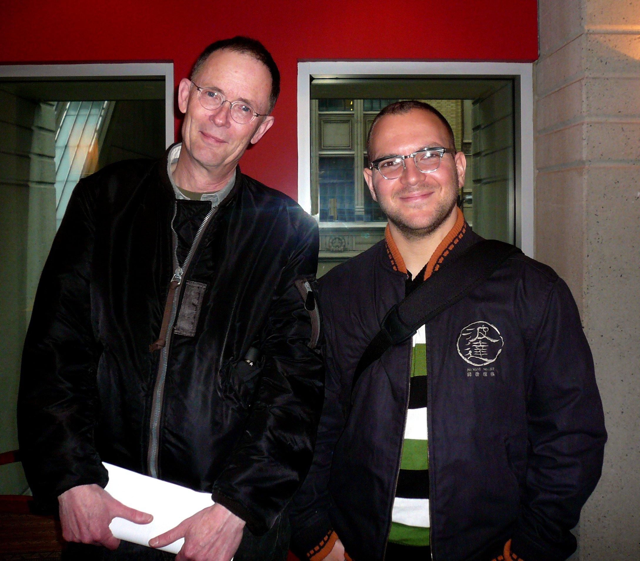 William Gibson and Cory Doctorow sourced from Flickr.